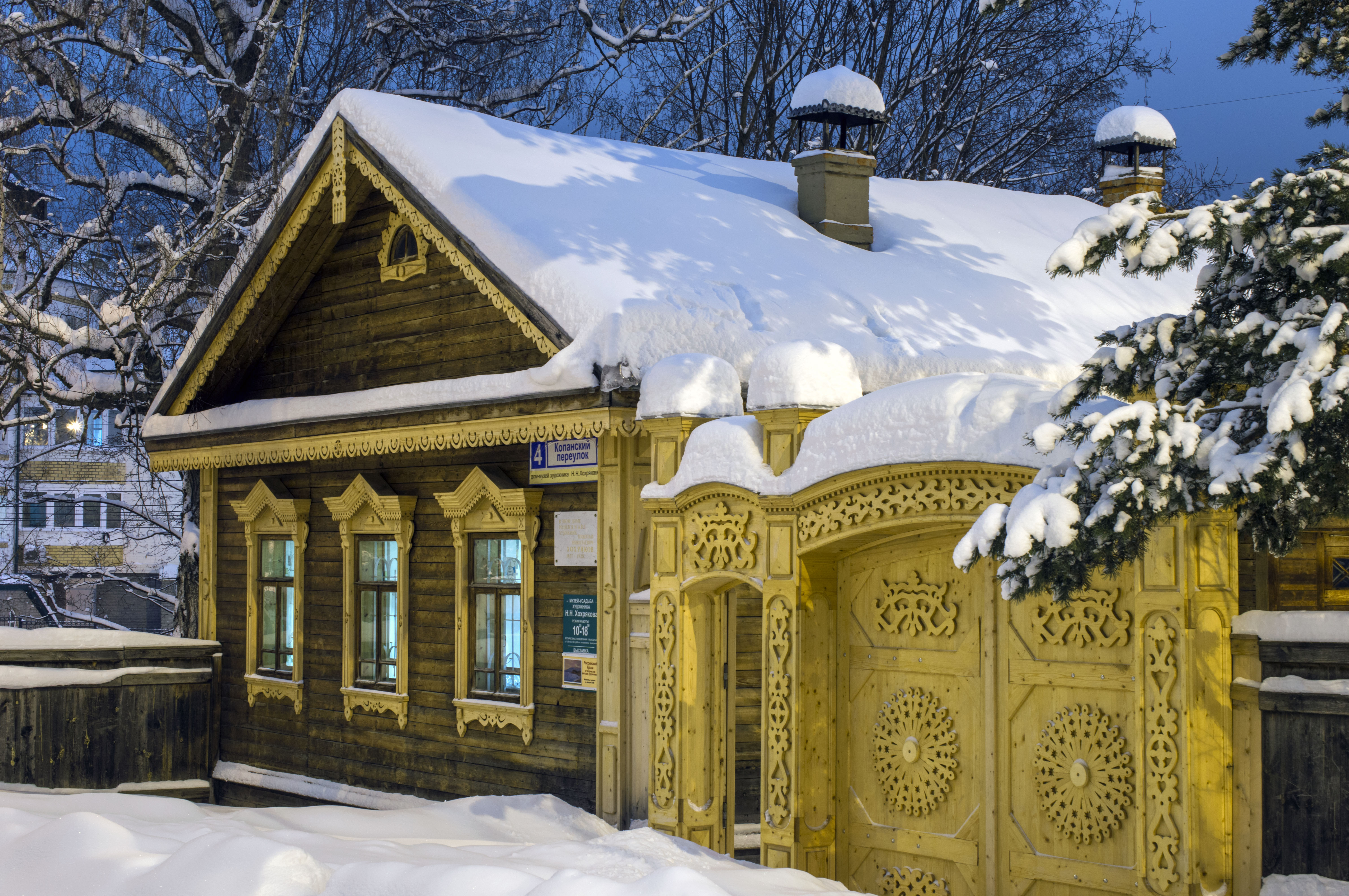 House museum of landscape painter N.N.Khokhryakov in Kirov, Russia